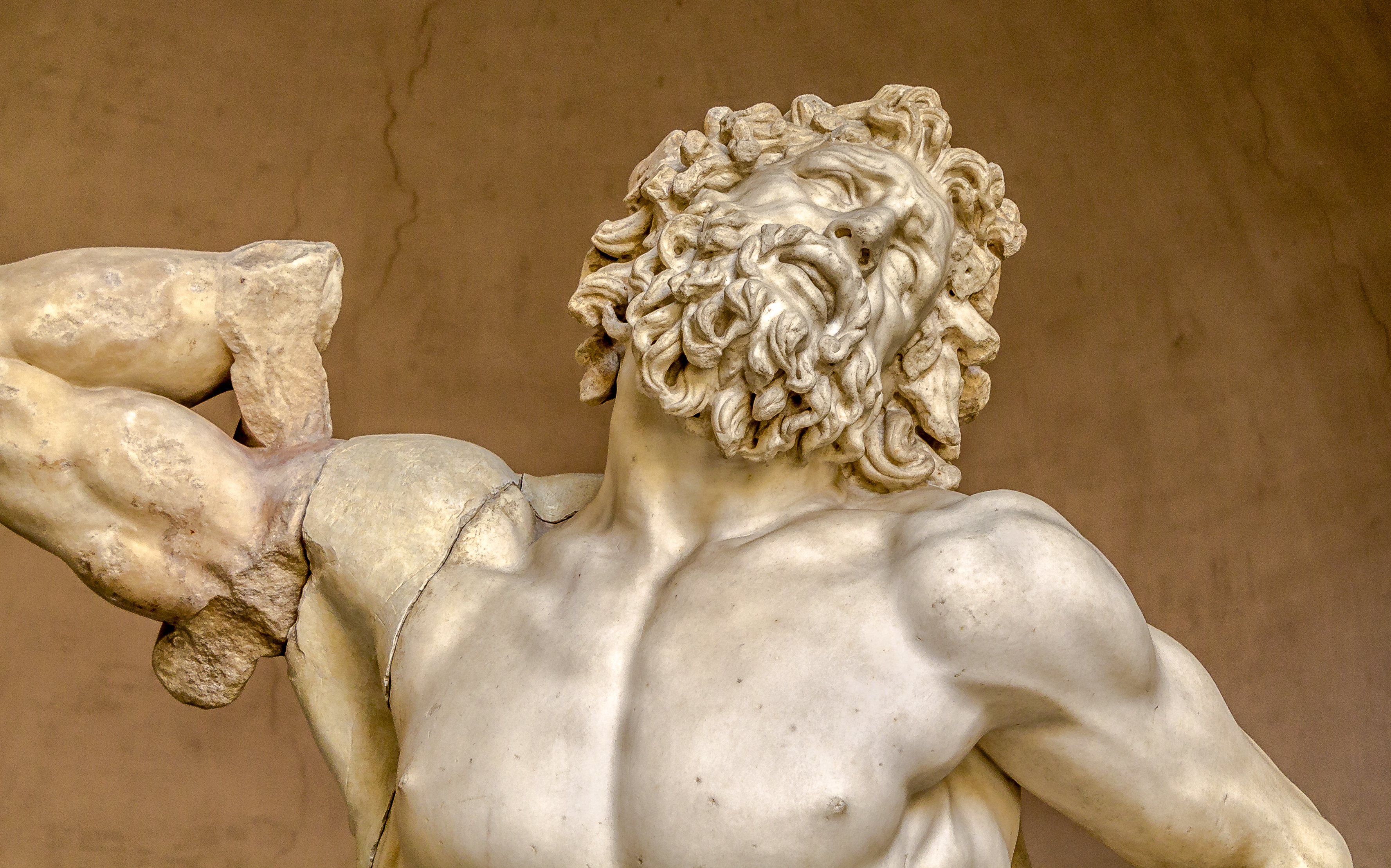 Laocoonte